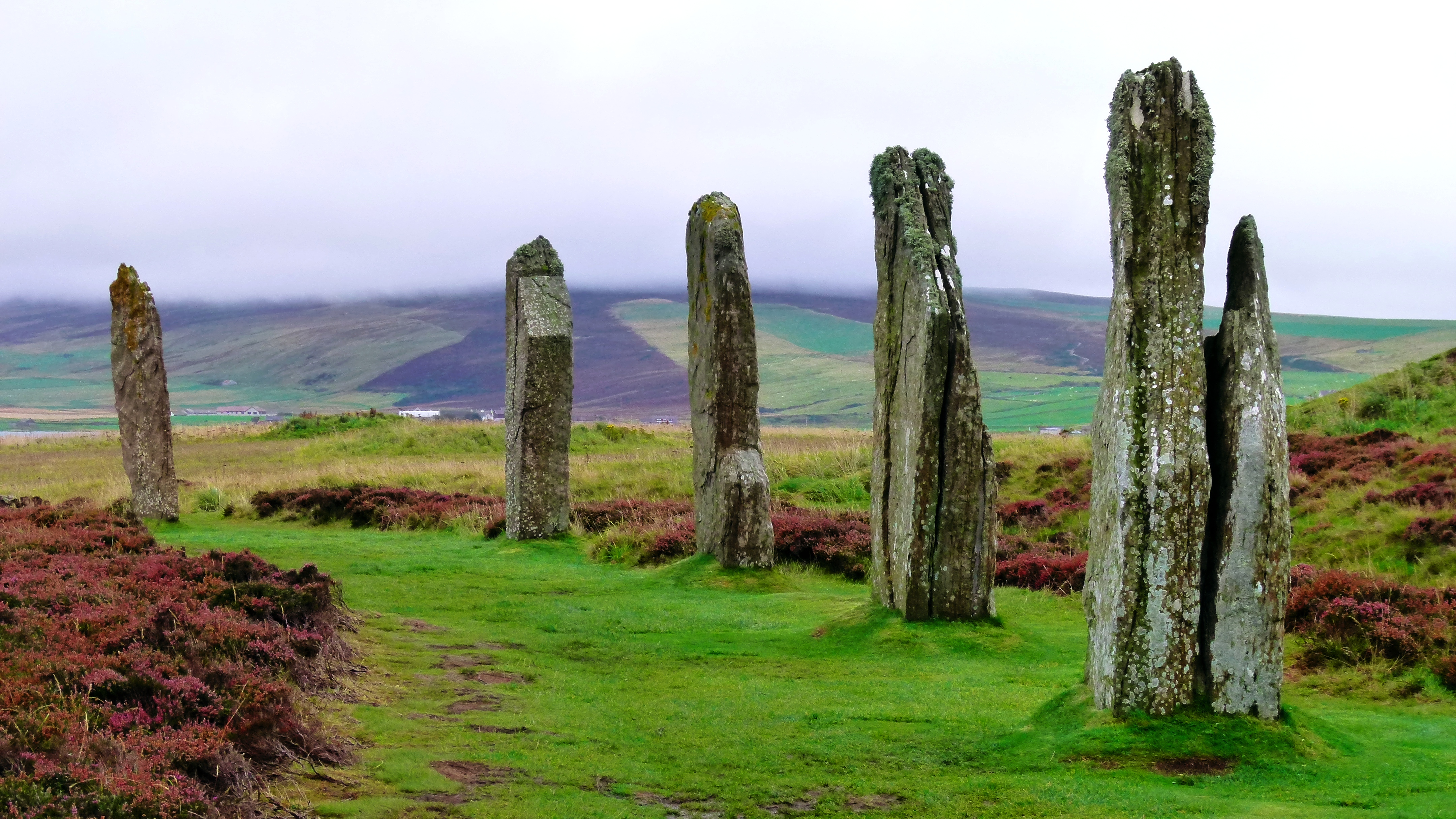 The Ring Of Brodgar